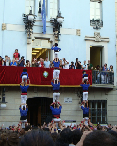 Human tower ("Vano de 5") from the Castellers de la Vila de Gràcia in Gràcia district (Barcelona), 2009.